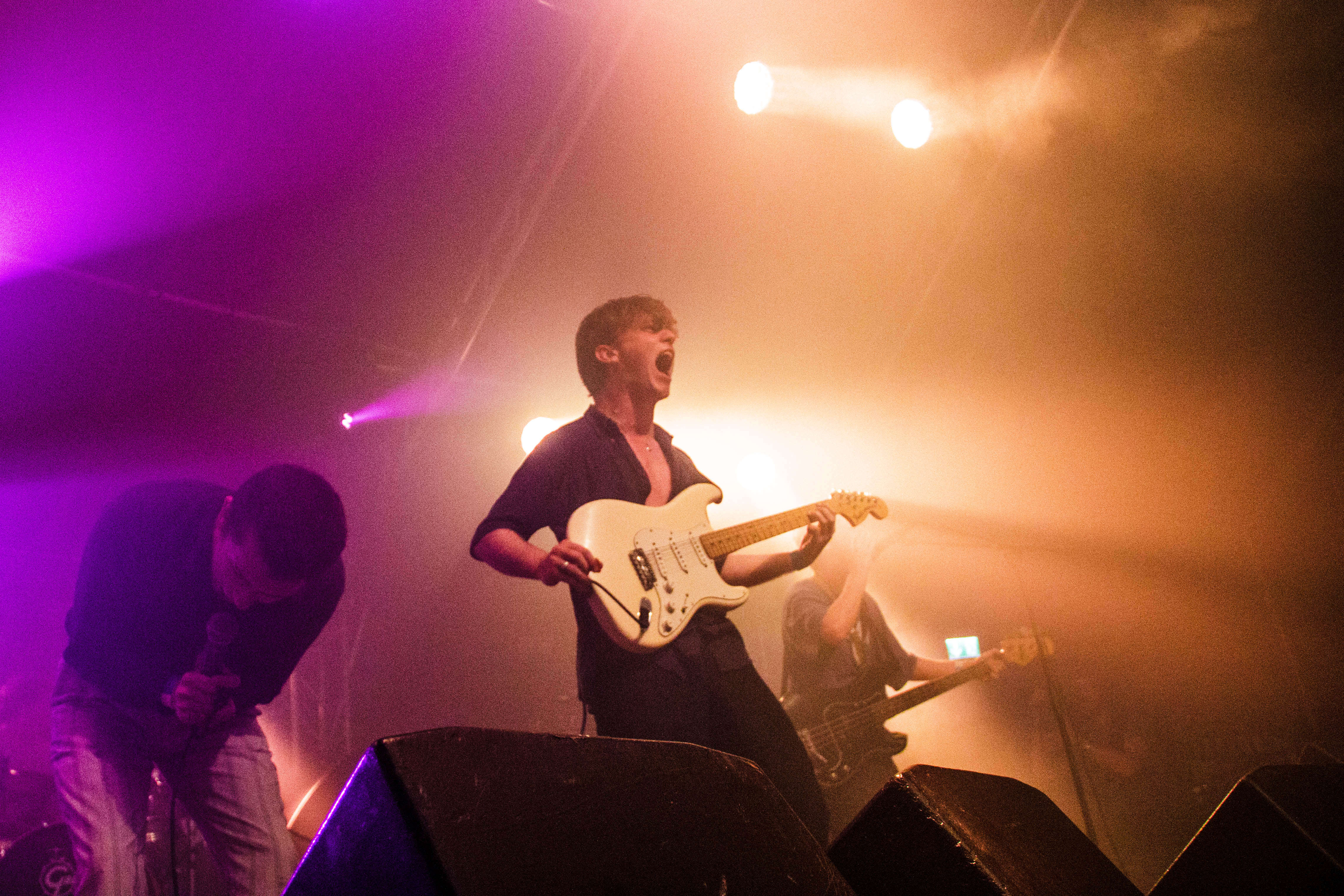 Shame at Haldern Pop Festival 2017